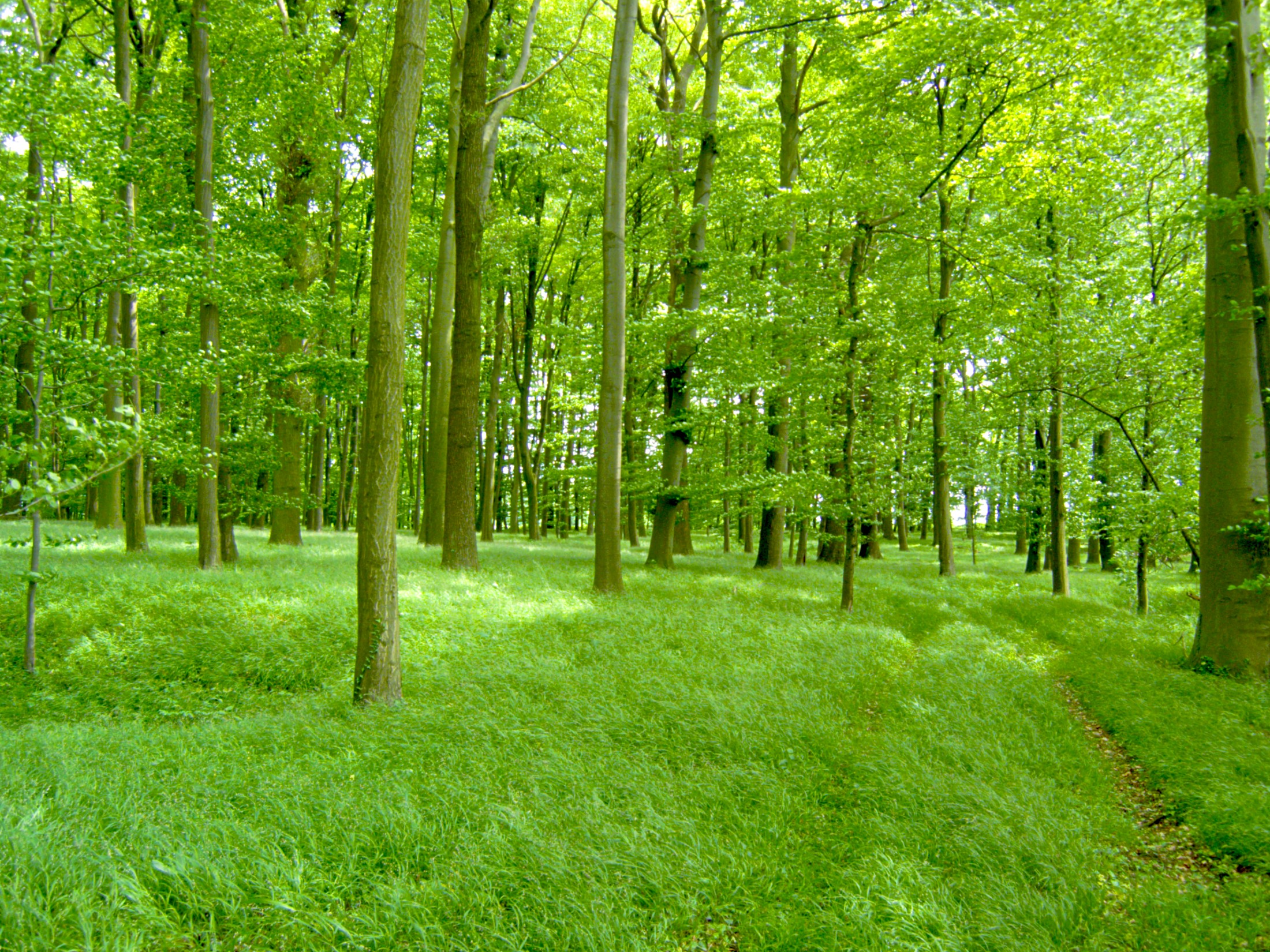 Galio odorati Fagetum. With Fagus sylvatica and -in herbal stratum- Melica uniflora. Location: Münster, NRW, Germany